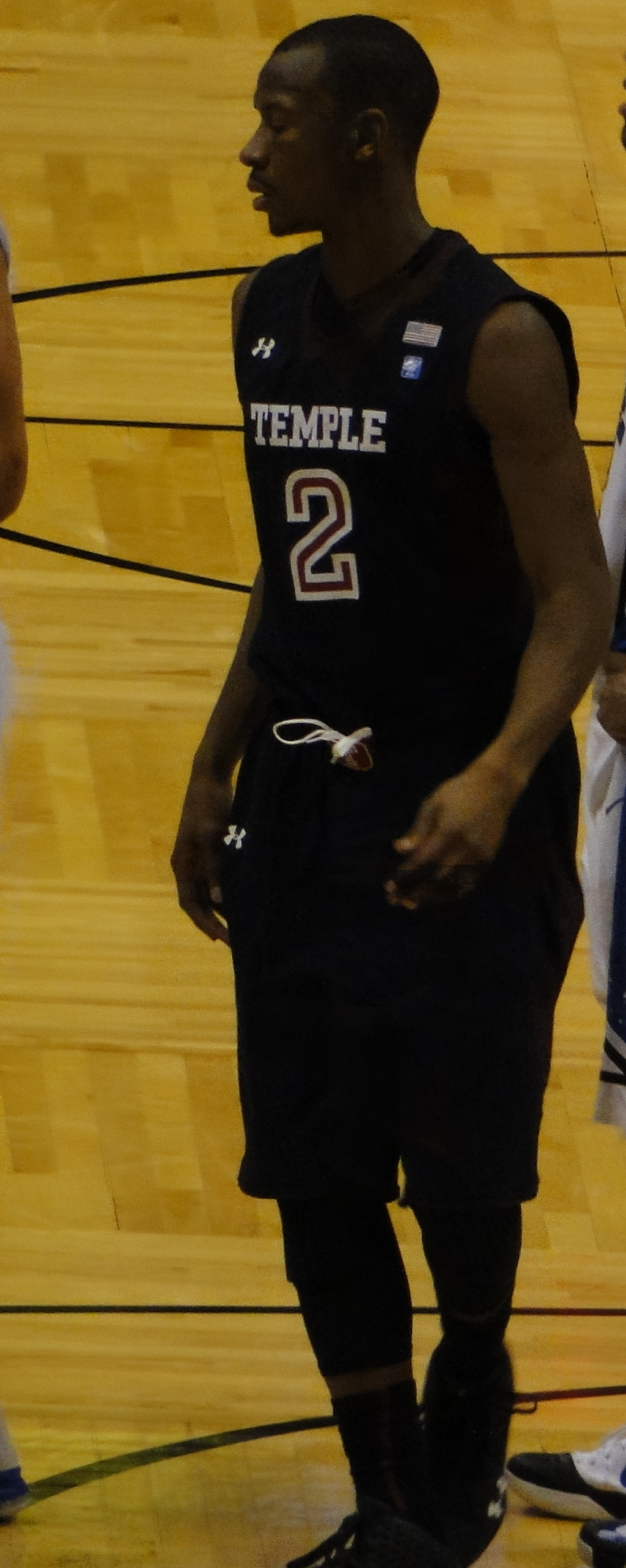 Temple vs. Duke